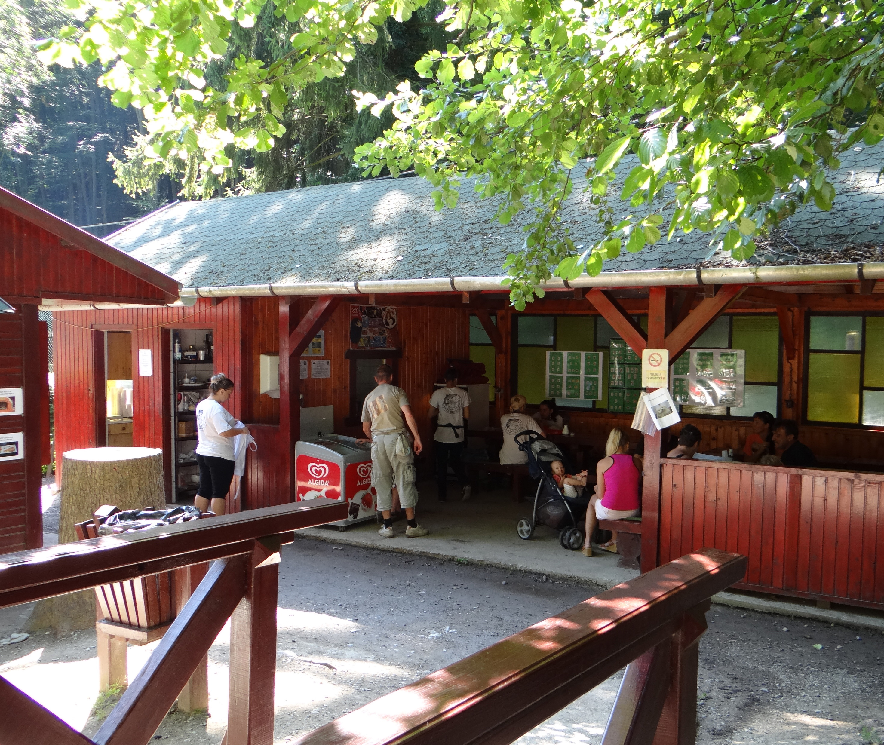 Restaurant, Lillafüred trout plant, Hungary